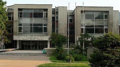 JBT building front side